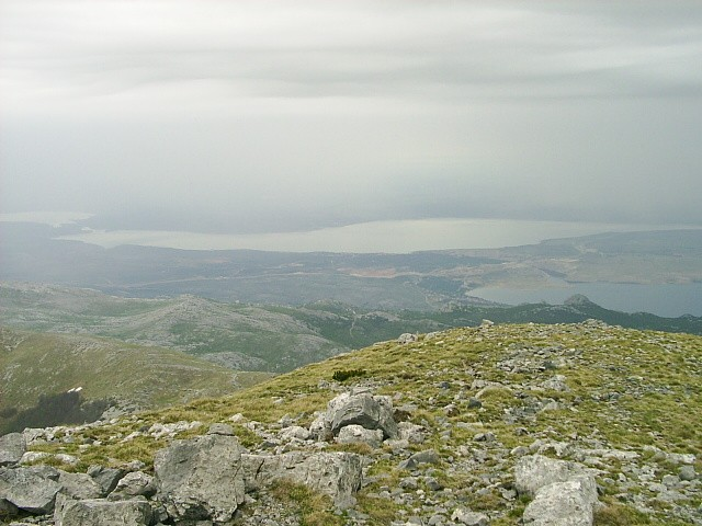 Velebit Mountains, Croatia